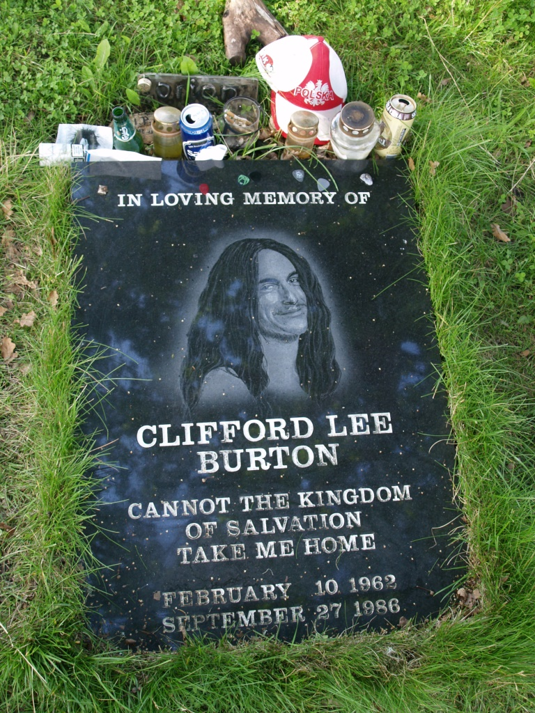 Cliff Burton memorial stone in Sweden ( Dörarp, Ljungby)